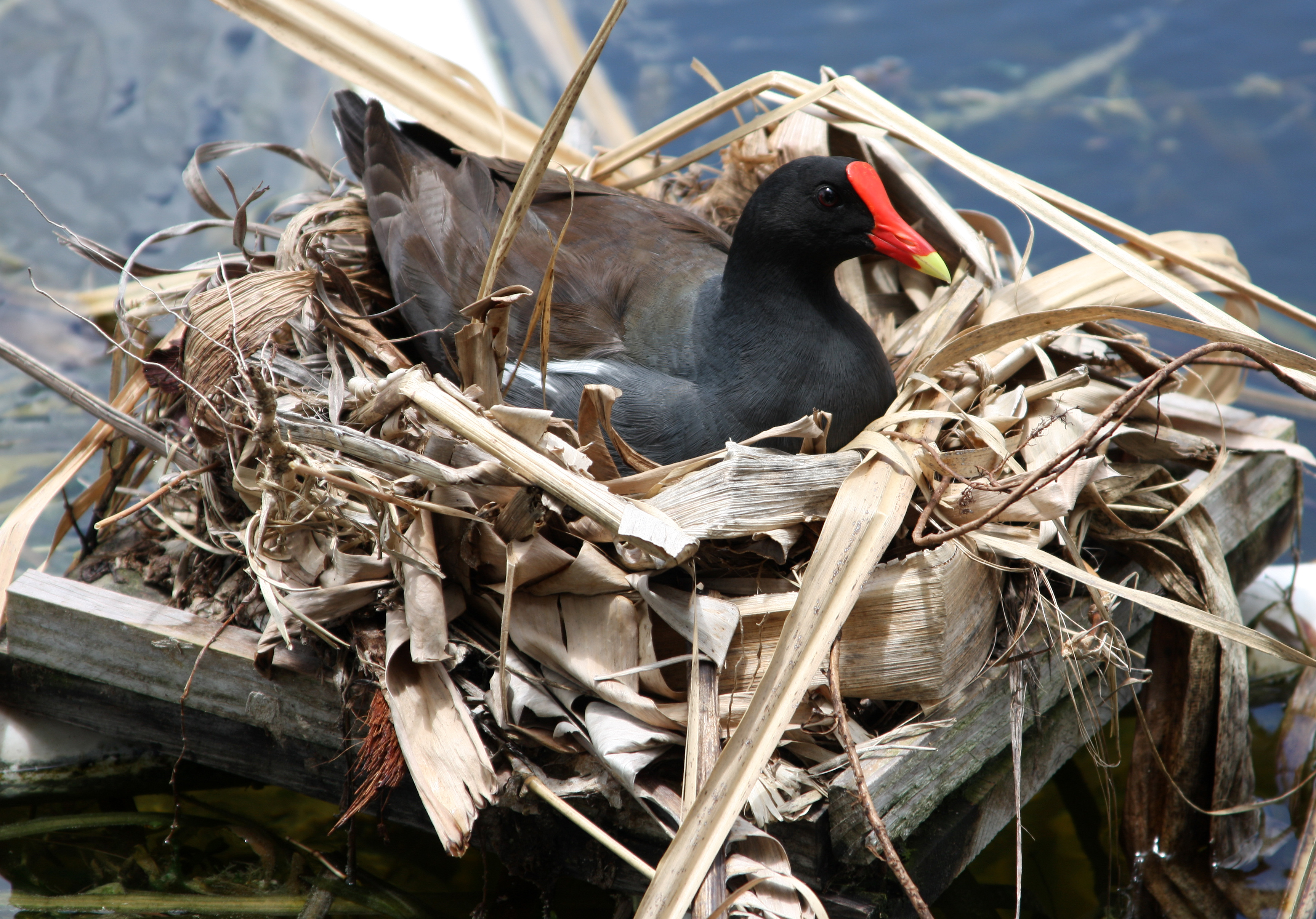 Common Gallinule (Gallinula galeata), female on nest, Margate, Florida